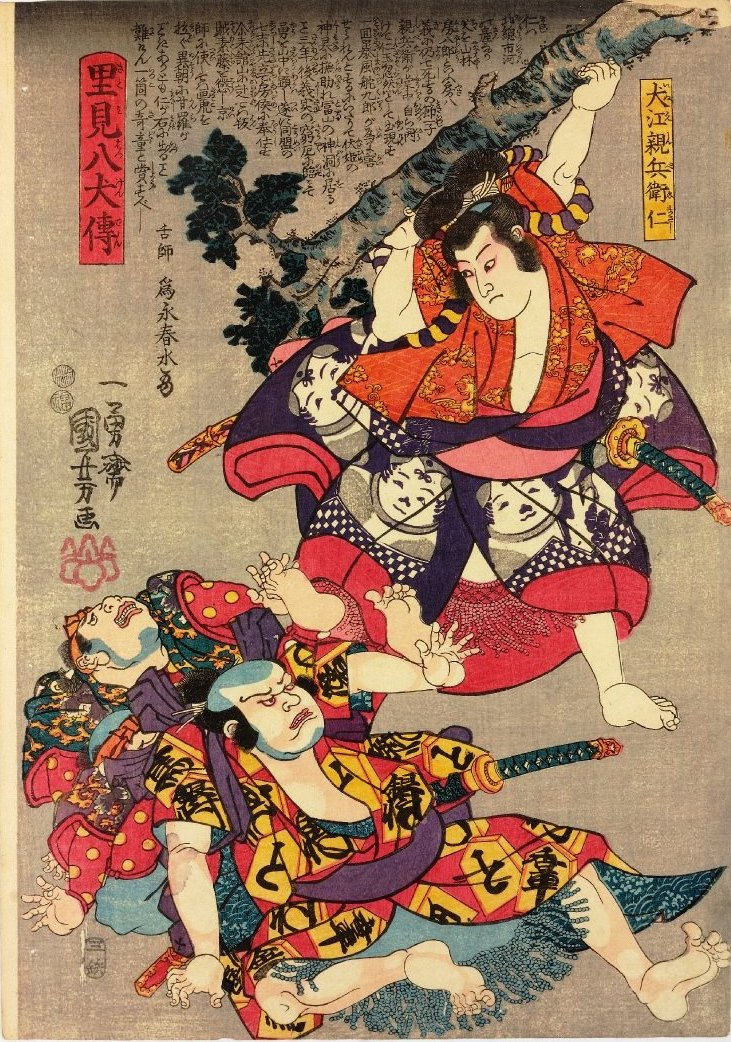 Inue Shinbei of Nansō Satomi Hakkenden.